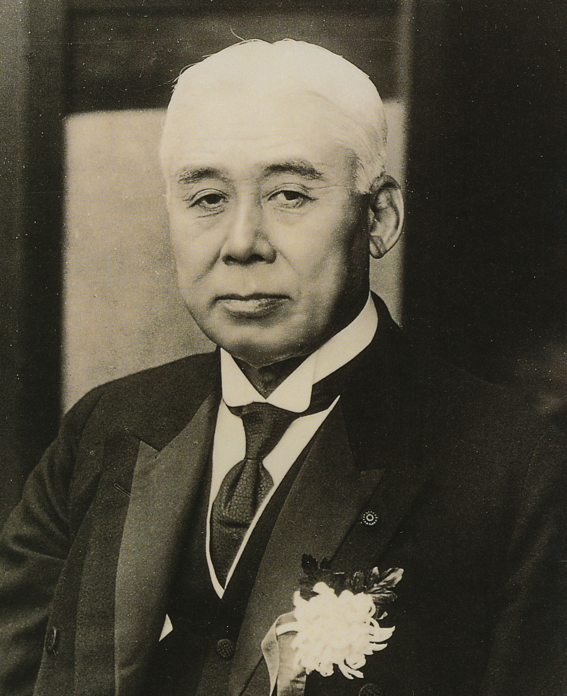 Portrait of Hara Takashi (原敬, 1856 – 1921)